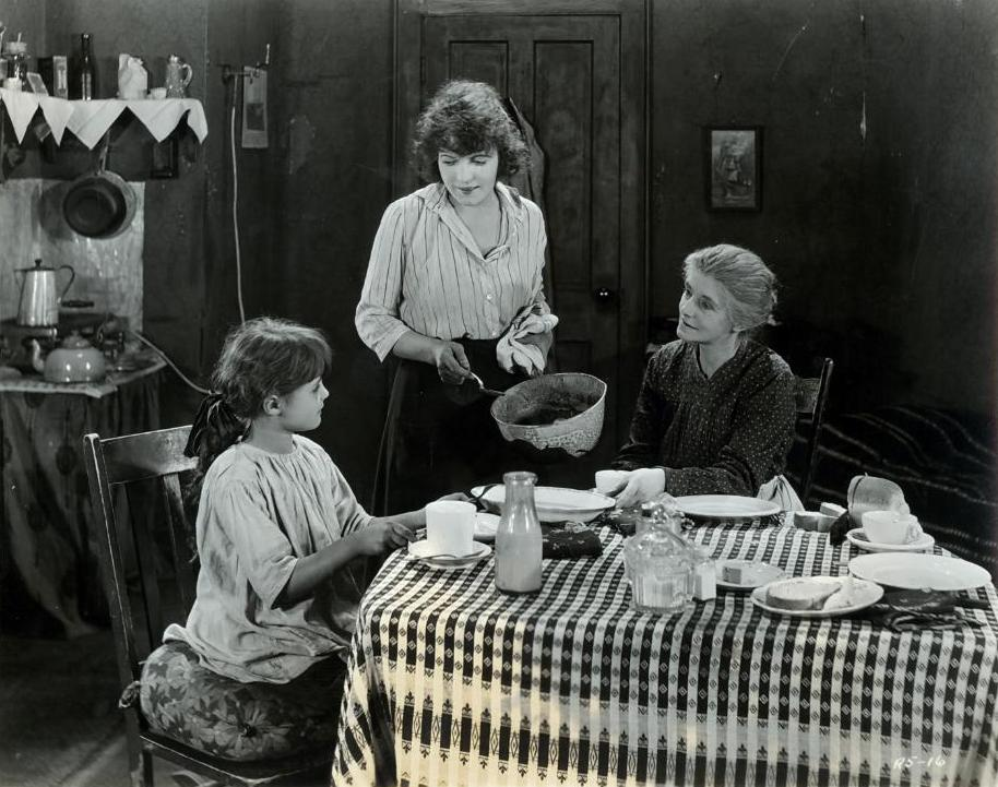 Peggy Cartwright, Louise Glaum, and Edith Yorke in Love - publicity still (cropped)